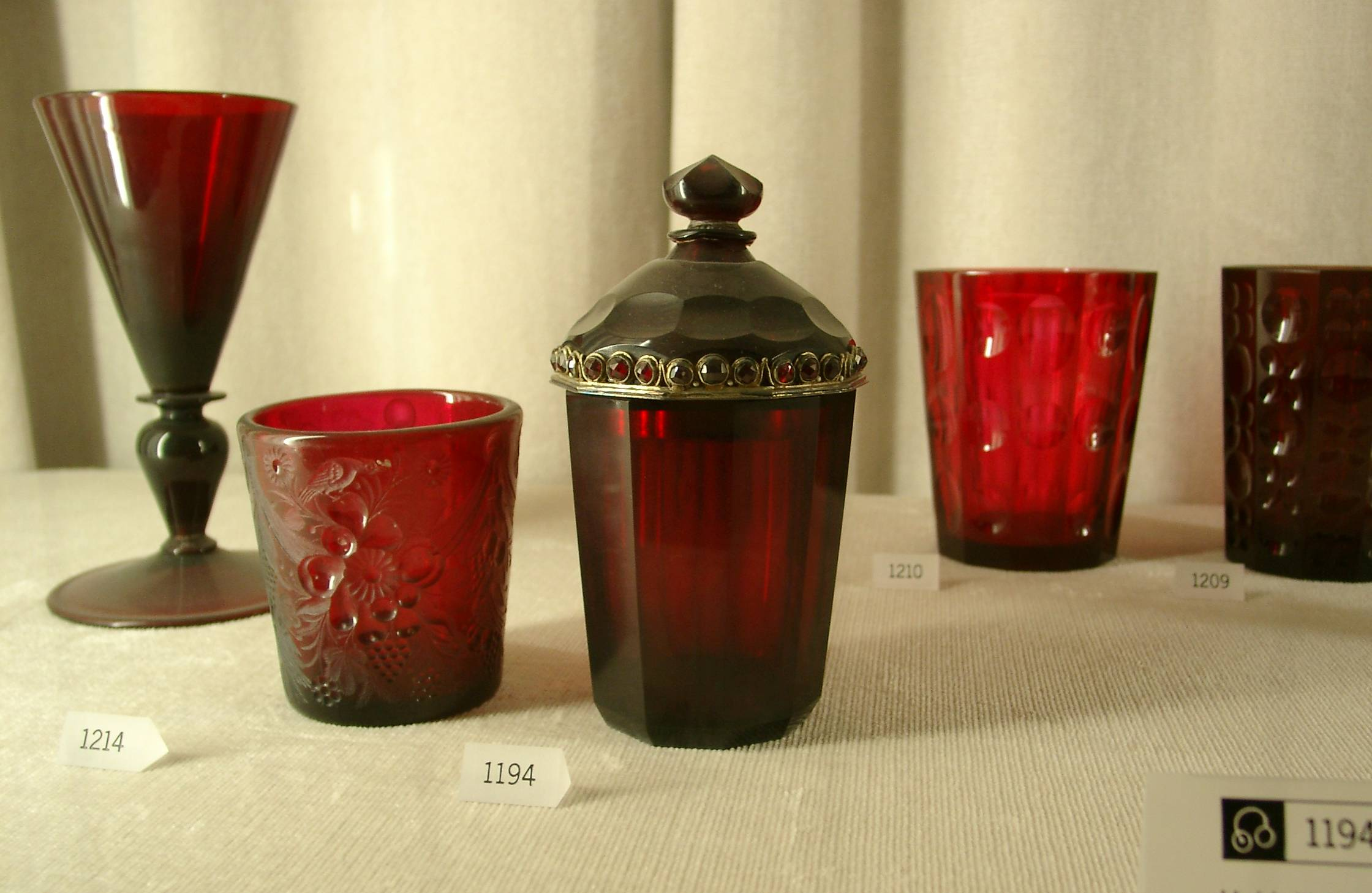 Cranberry glass or Gold Ruby from the treasury chamber of the Wittelsbacher located in the Munich Residenz. The glass with the lid is attributed to be created by Johannes Kunckel (he improved the production of cranberry glass)